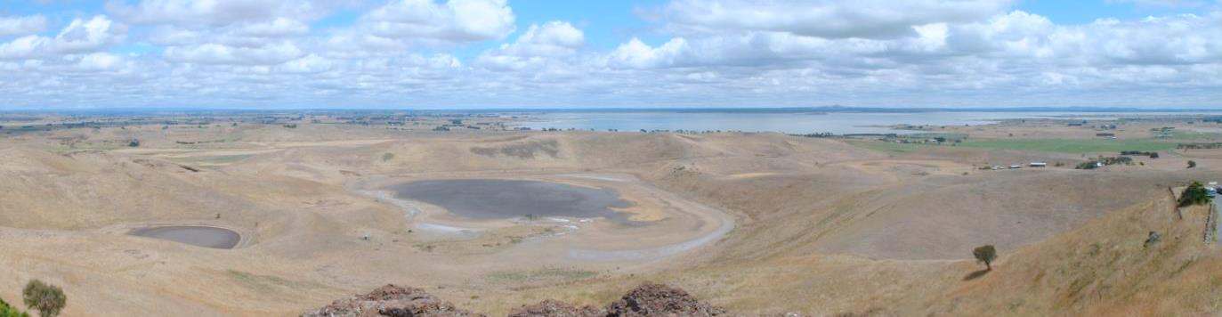 View from Red Rock, near Alvie, Victoria, Australia. Red Rock is an extinct volcano. In the foreground are various craters and lakes, while in the background is Lake Corangamite.